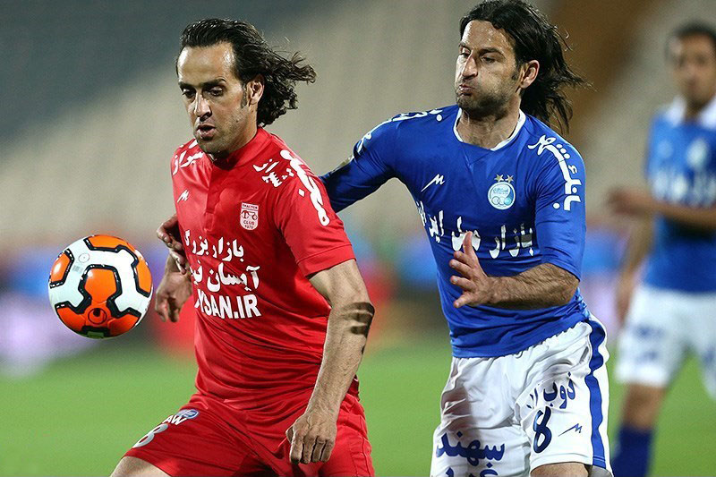 Ali Karimi trying to past Pejman Nouri, Persian Gulf Pro League game between Esteghlal F.C. and Tractor Sazi F.C.